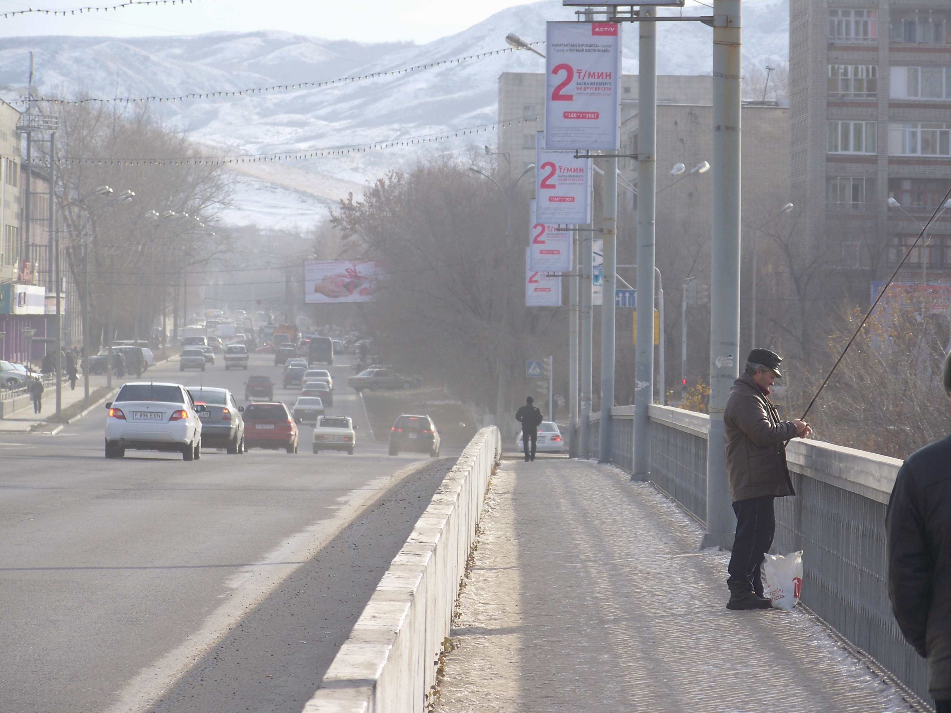 Fisher man on "The new ulba bridge" (Новый Ульбинский мост) in ´Öskemen, Kazakhstan with altai mountains in the background.